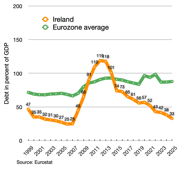 Ireland debt history since 1995. 1999-2011: Eurostat data: (see "General government gross debt") (see also: 2010-2015: Eurostat data: (latest update: October 2013) 2016-2017: Once Ernst & Young updates their forecasts, then we could use their data as well: 2015-2016 estimates from Ernst & Young using data from Oxford Economics ; (latest update: June 2012)